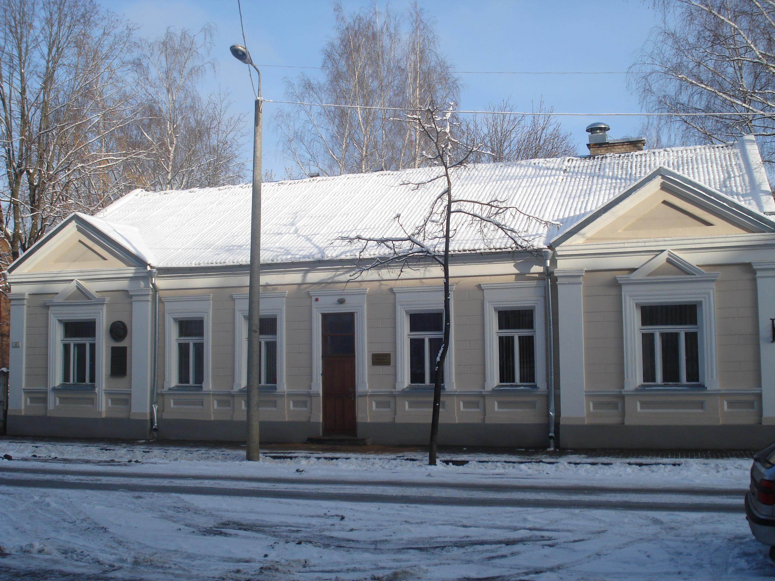 House in Daugavpils where on 16 March 1890 Solomon Mikhoels, a Soviet Jewish actor and director, was born. Former Postoyalaya, now Mihoelsa Street. Nowadays the building hosts the Daugavpils Disabled Children’s Preschool Educational Establishment.